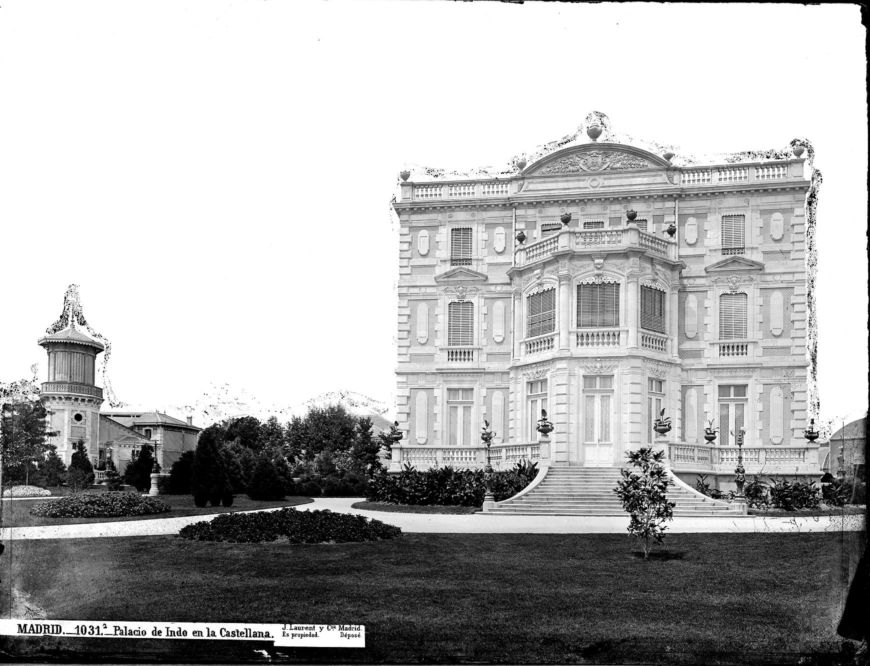 Palacio de Indo was located in the Paseo de la Castellana (Madrid). Photographed by J. Laurent.